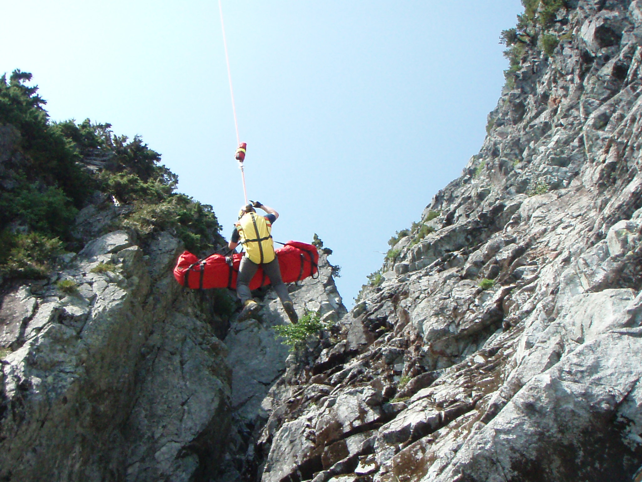 HFRS system used by North Shore Rescue to evacuate seriously injured climber from the Lions near North Vancouver, British Columbia.